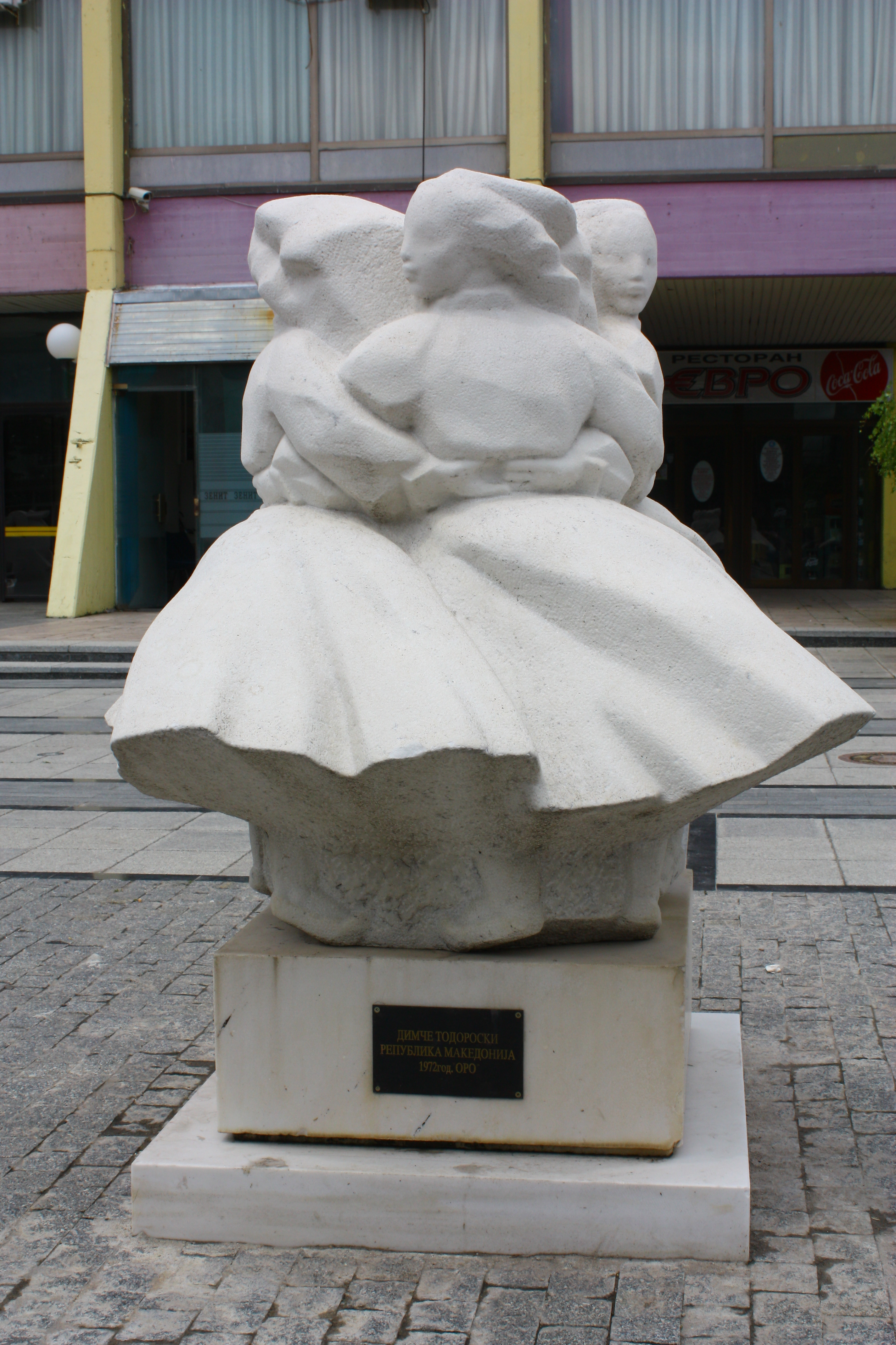 "Oro", Prilep,Macedonia